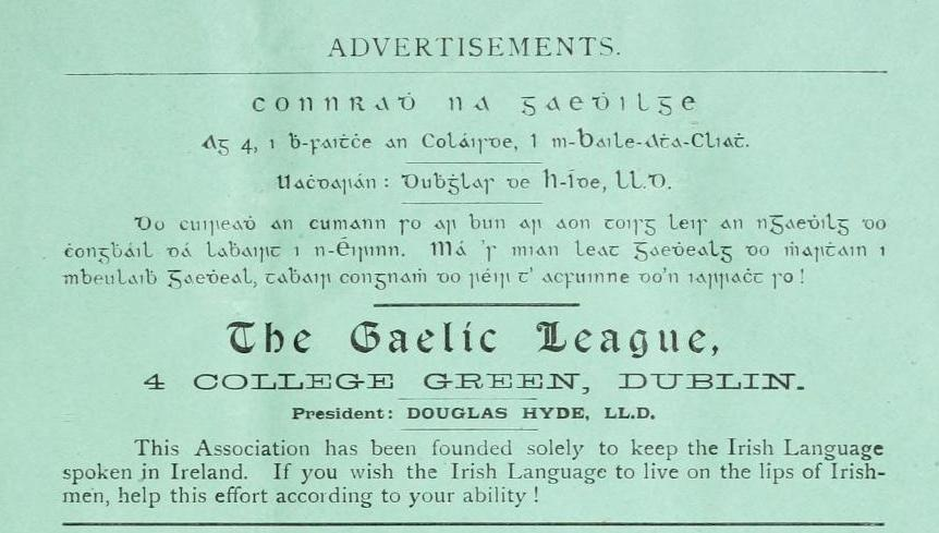 Advertisement for Gaelic League in Gaelic Journal, Volume 5, nr 3 June 1894